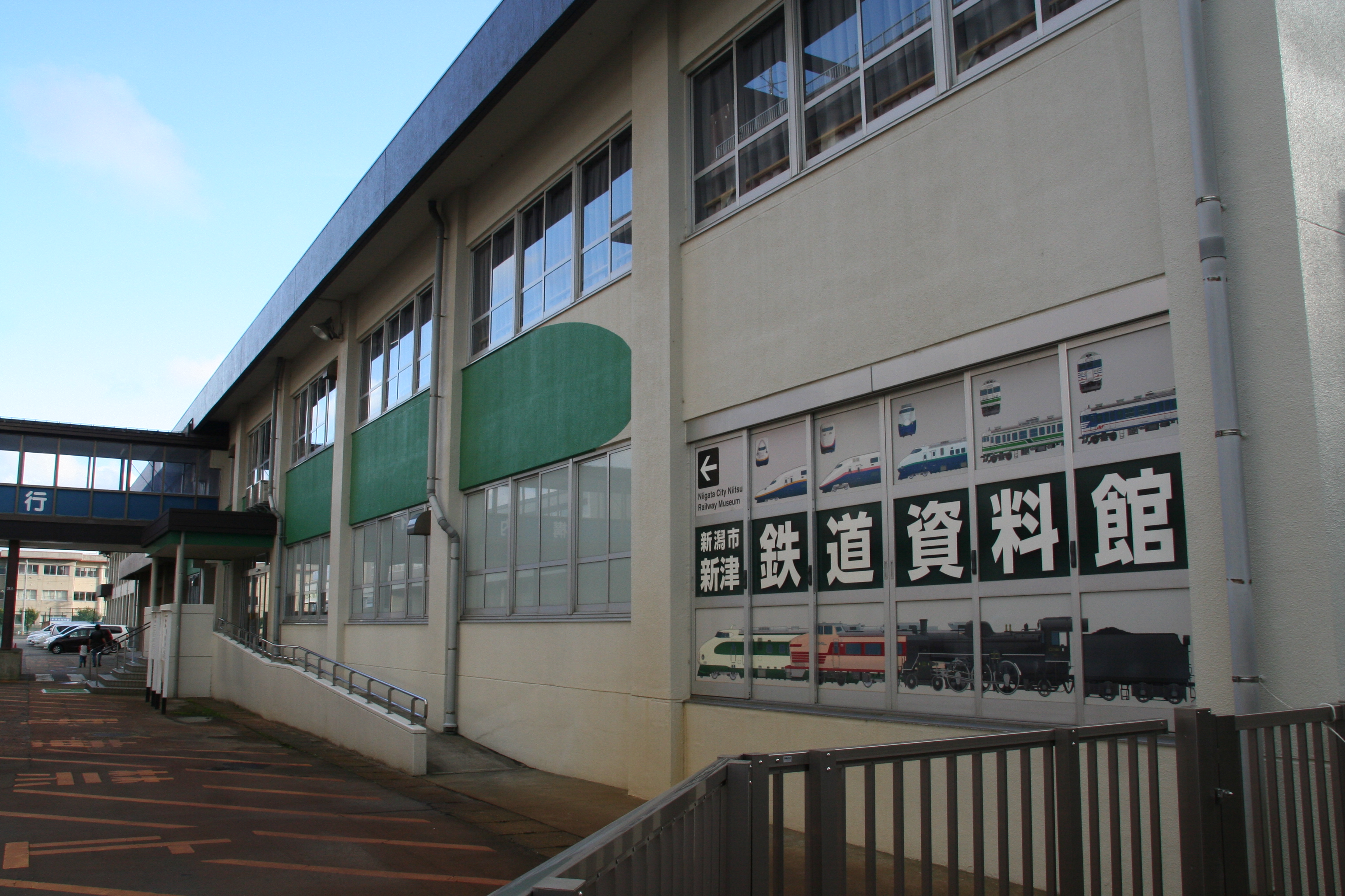 Niigata City Niitsu Railway Museum